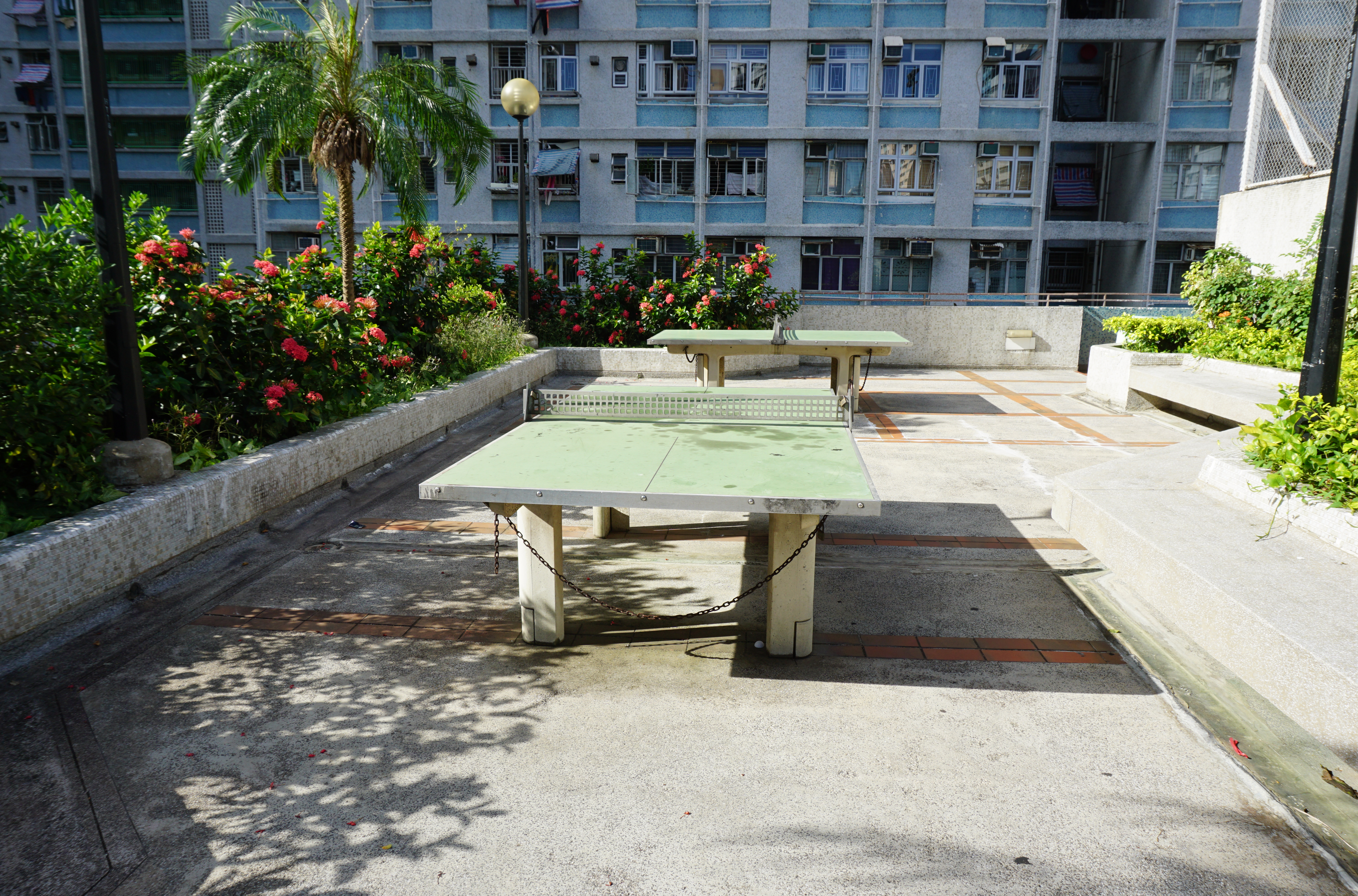 Kwai Hing Estate in Kwai Chung, Hong Kong.